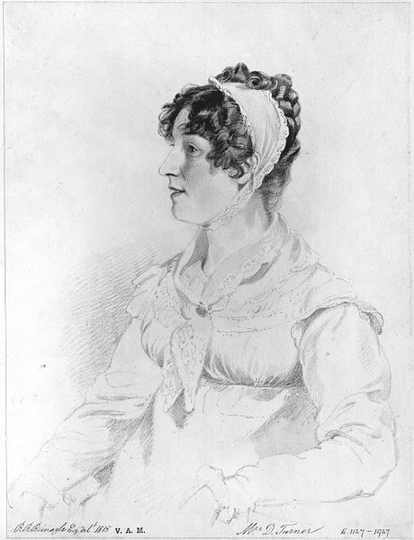 Portrait drawing of Mary Dawson Turner (1774–1850), English artist.